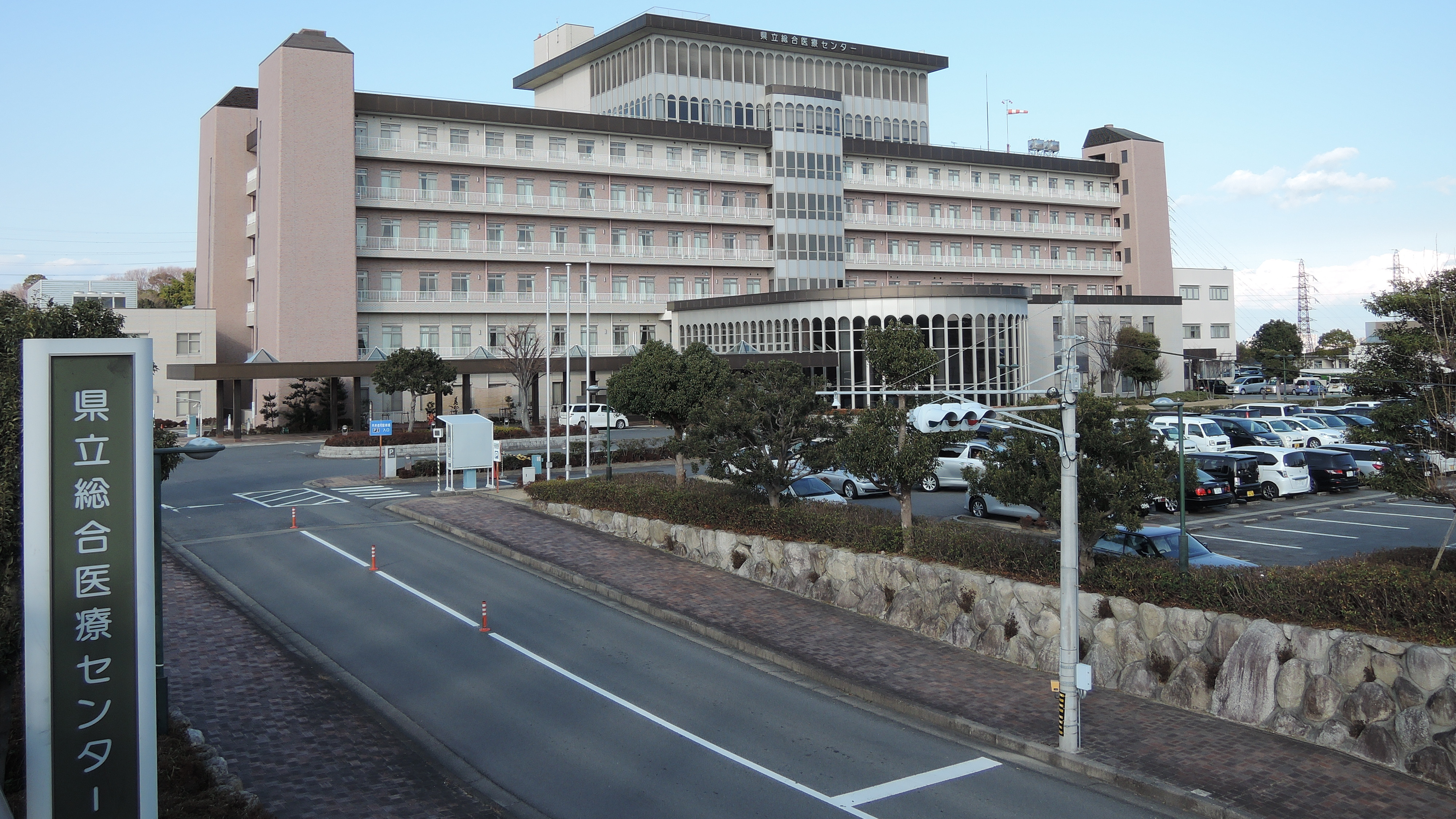 Mie prefectural General medicical center,Mie prefecture, Japan